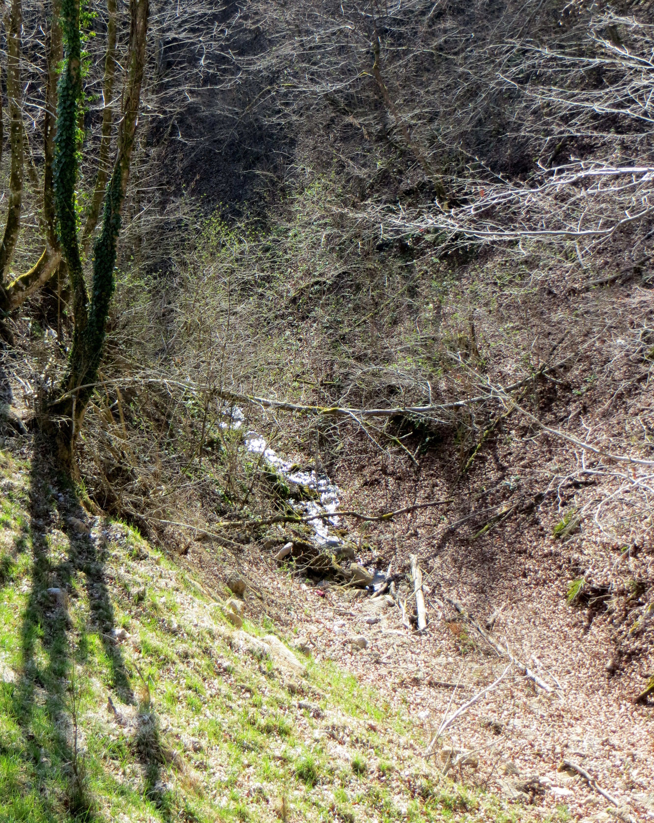 Aslivka Creek in Zgornja Besnica, Municipality of Ljubljana, Slovenia